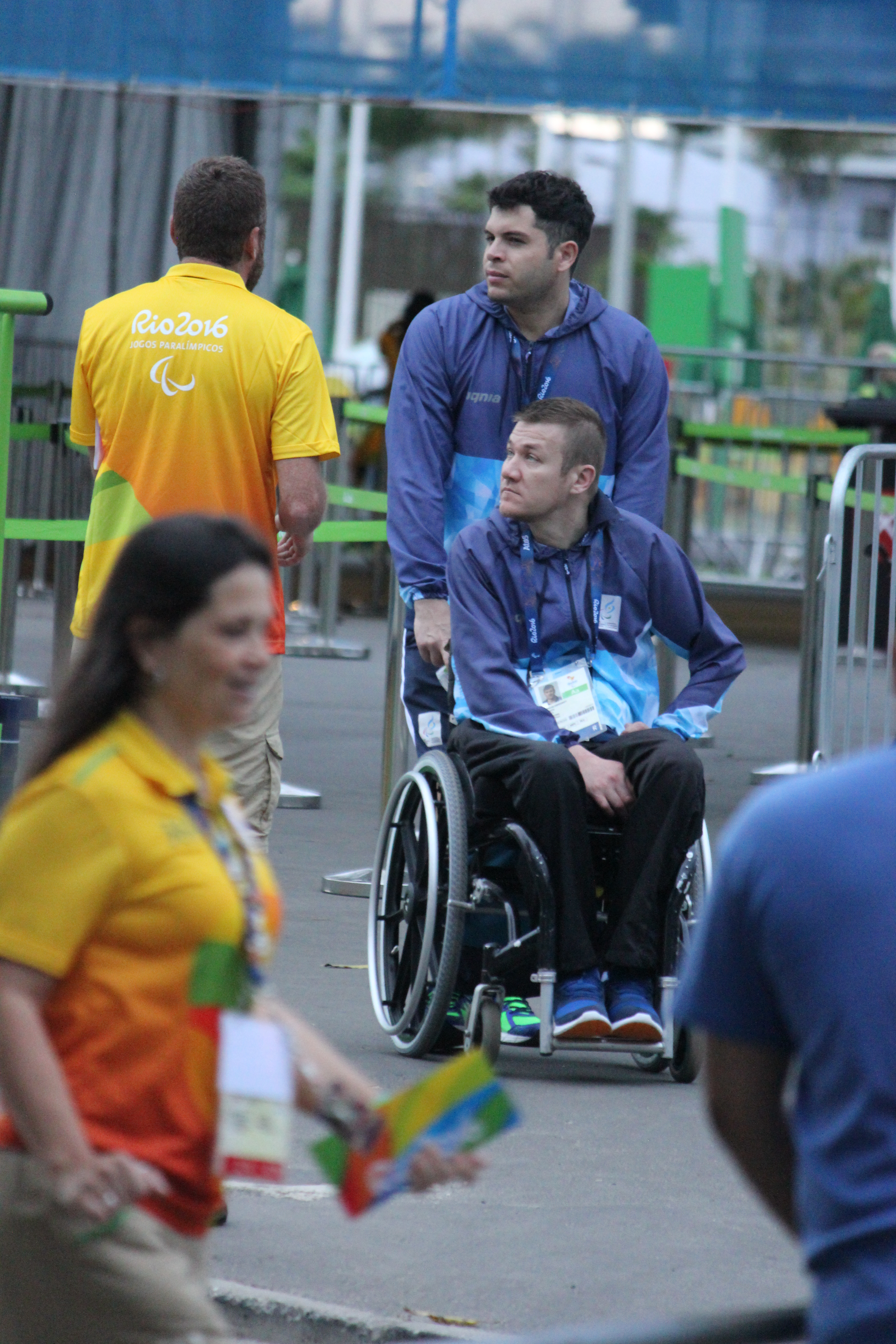 Fernando Eberhardt, Argentina table tennis player. Argentina during open ceremony games load period outside Paralypic village